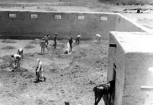 A photograph from the day Tirat Zvi was established